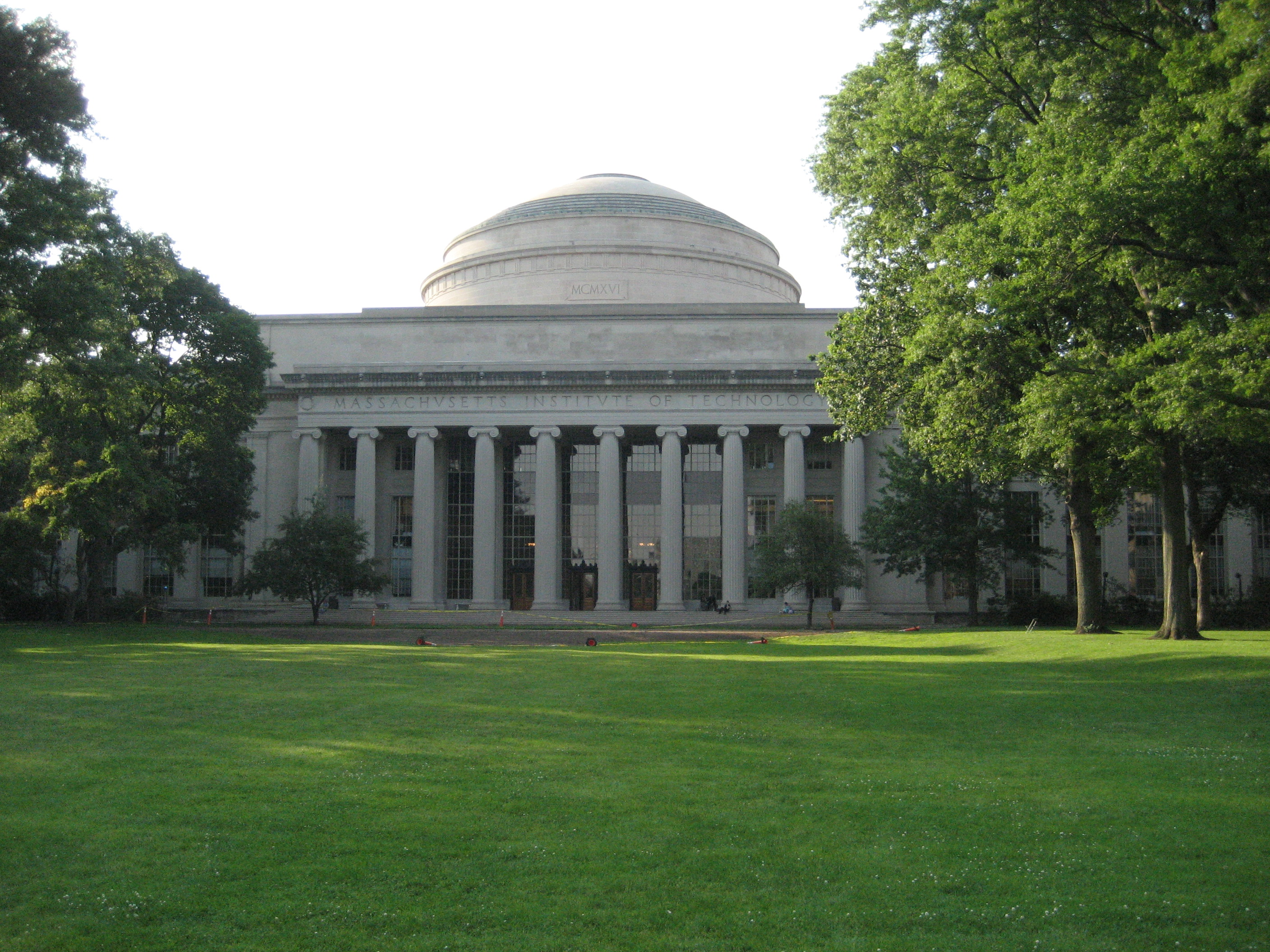 Cambridge, Massachusetts: Old main building, MIT